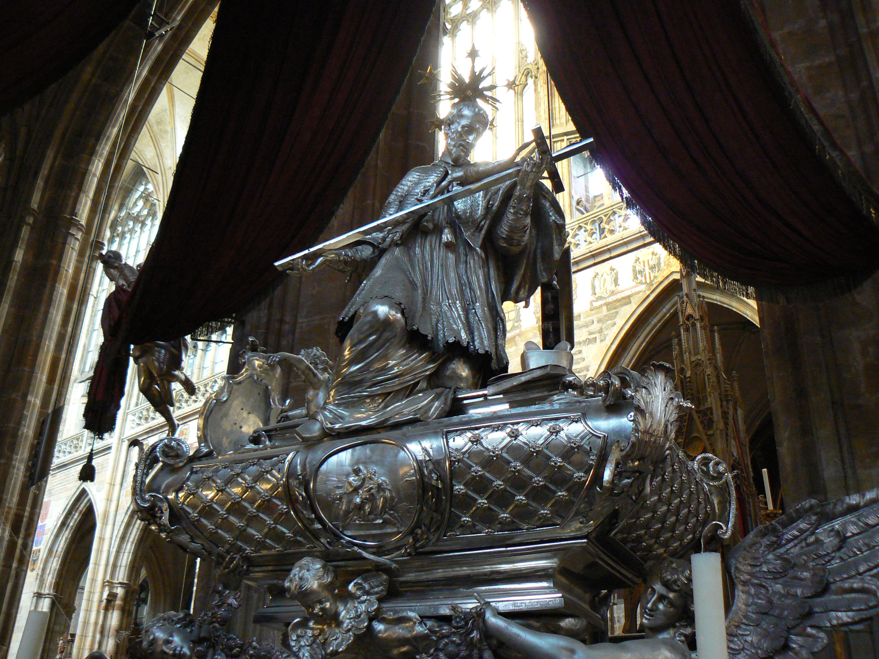 Tomb of John of Nepomuk